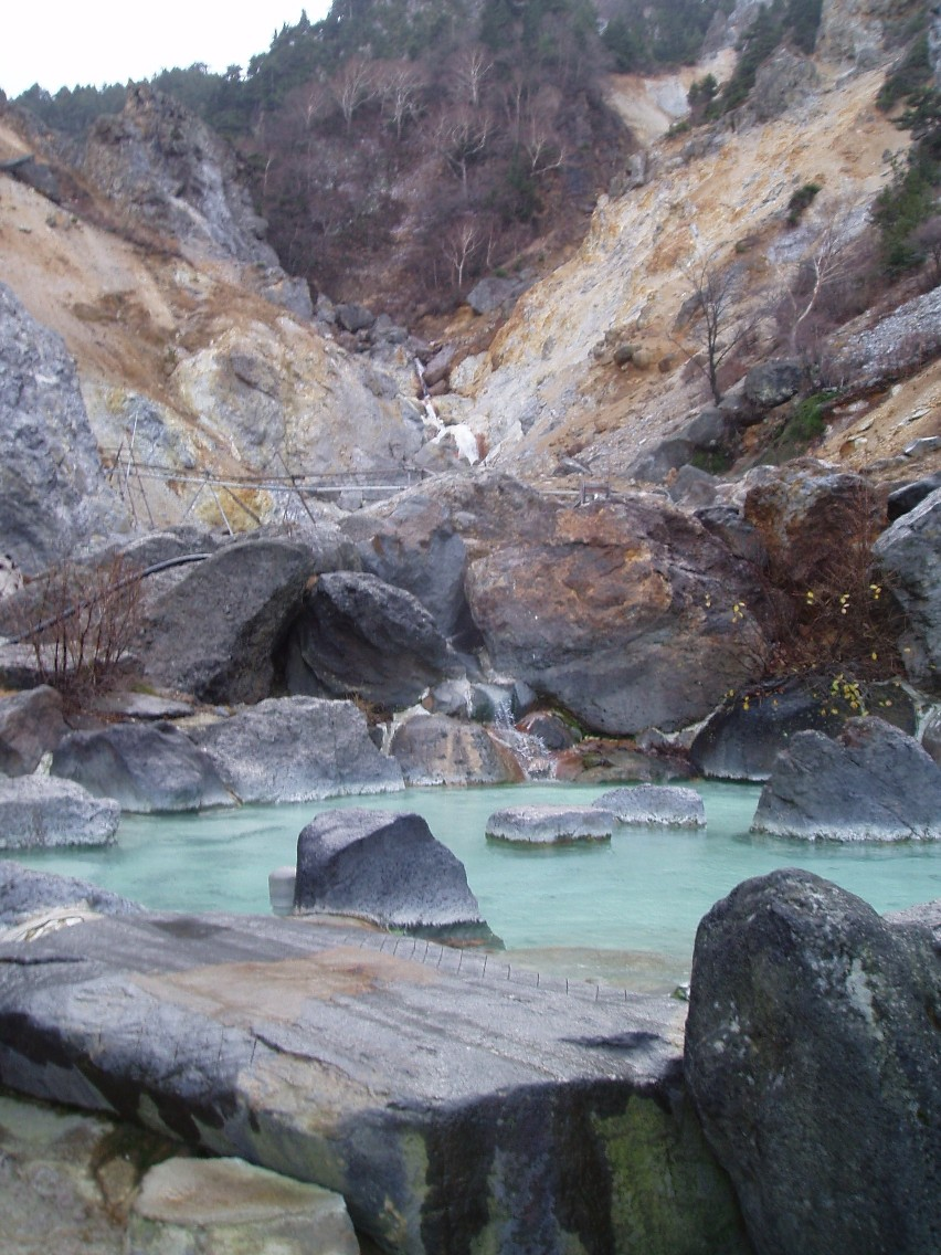 Ubayu Onsen